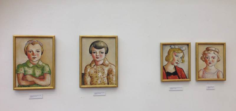 Sava Šumanović, Children's characters, 1939.